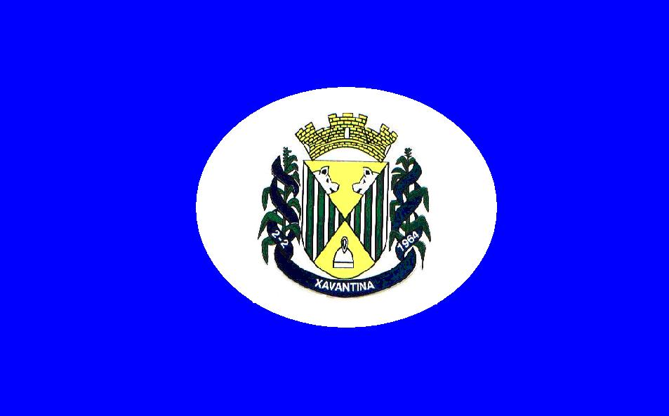 Flag of the municipality of Xavantina, SC, Brazil